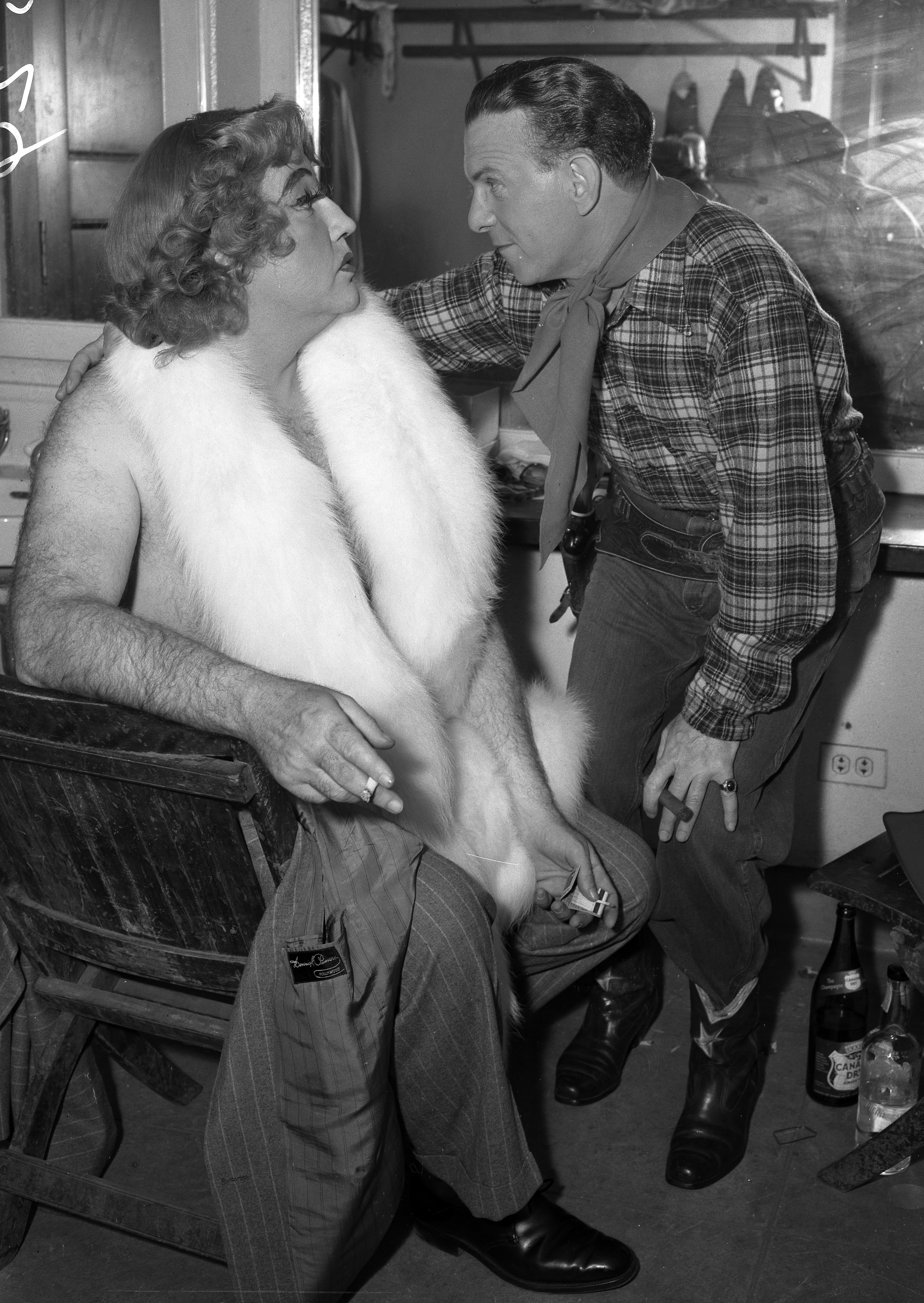 Title: Actor Broderick Crawford in drag with comedian George Burns backstage during Friars Frolics in Los Angeles, Calif., 1950 Published caption:DAFFY DUET-- With an all-male cast, last night's Friars Frolics had only Broderick Crawford to offer George Burns as a substitute for his usual Gracie Allen.